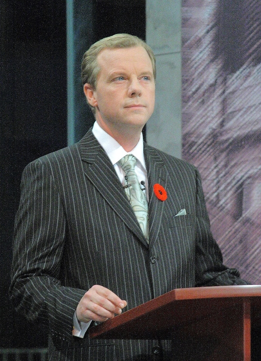 Brad Wall at the 2007 Leader's Debate